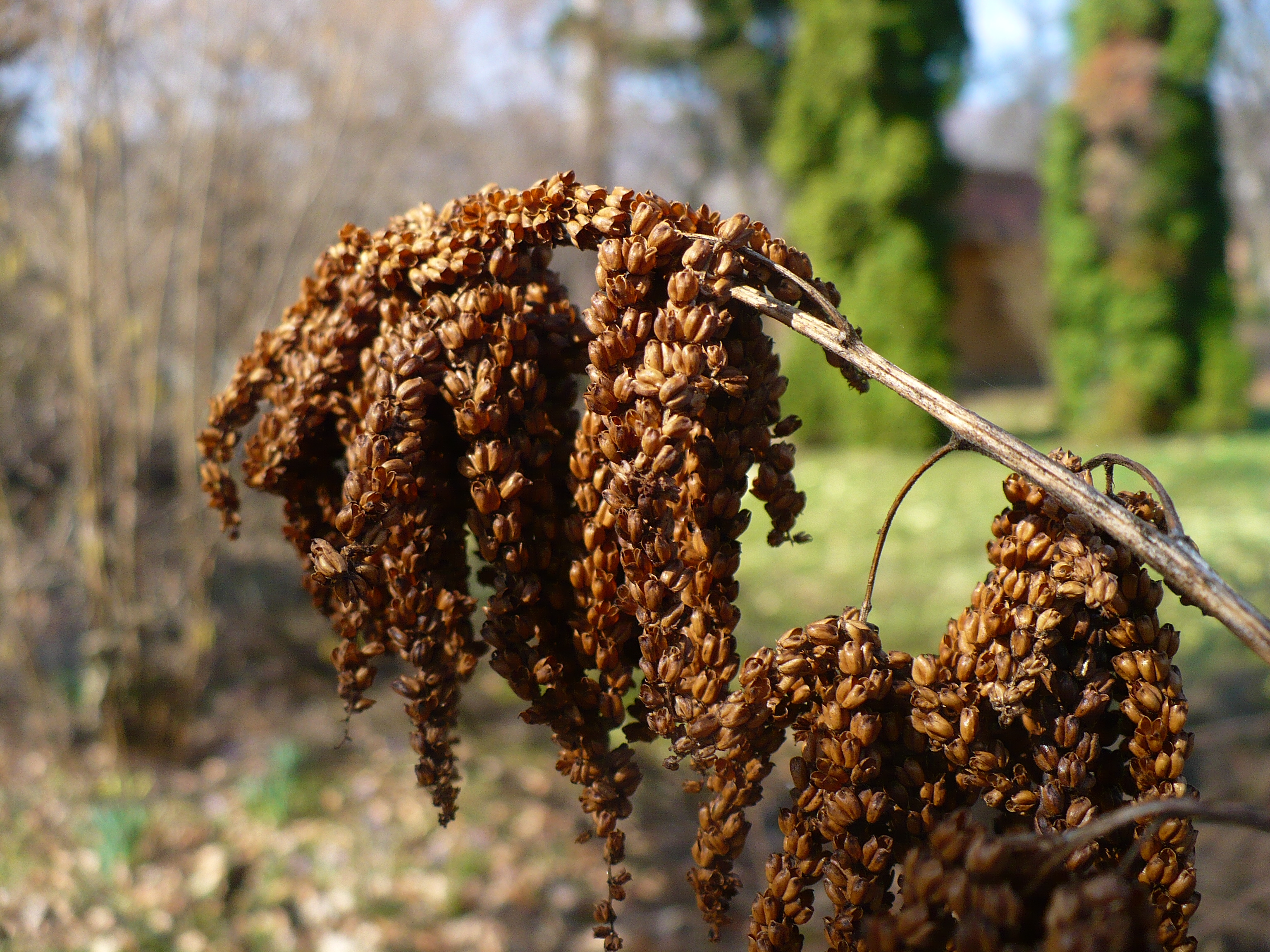 Aruncus dioicus or A. sylvestris in the Chernel arboretum, Kőszeg, Hungary